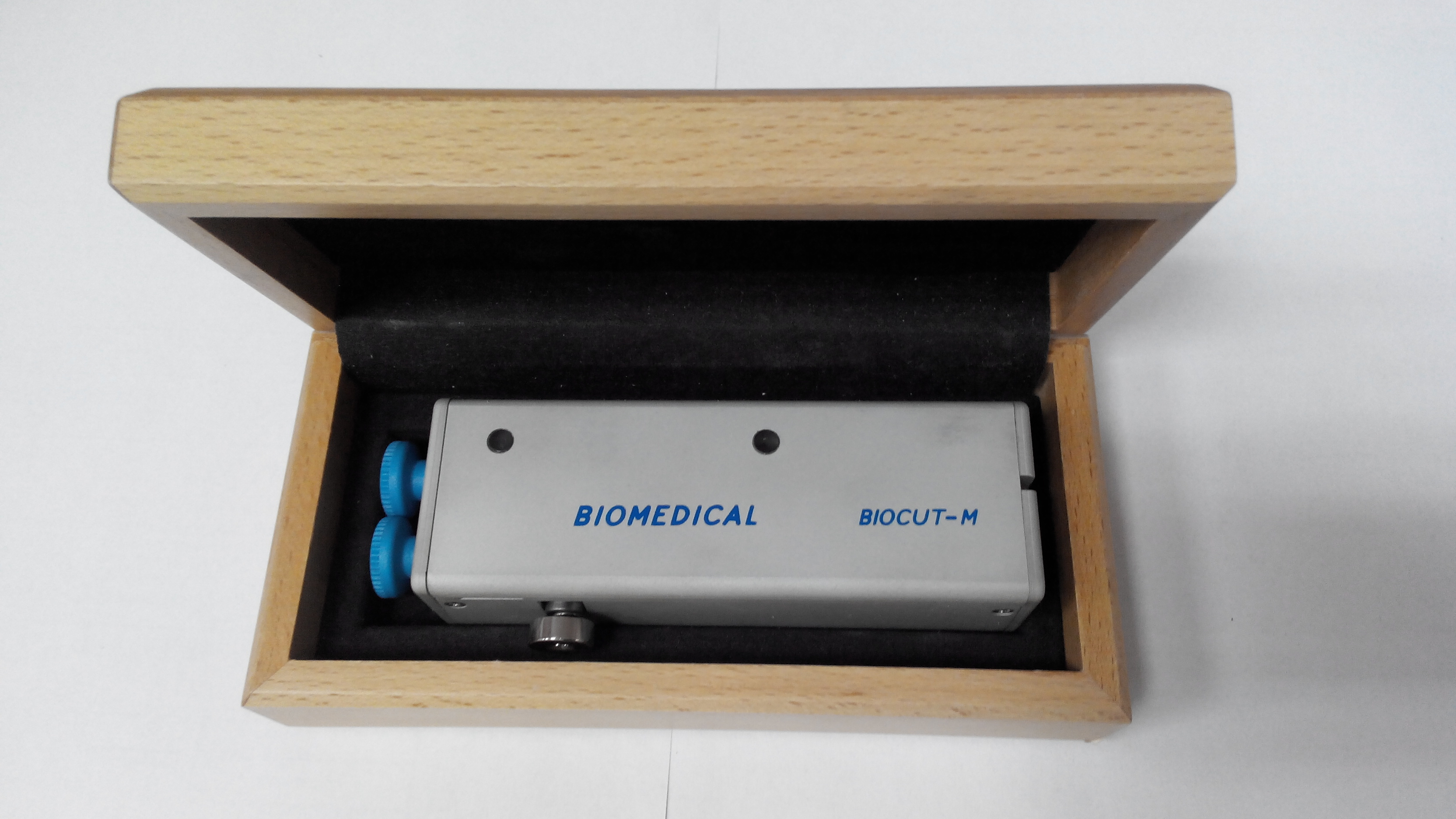 Reusable automatic device Biocut-M for soft tissue biopsy. Produced by Biomedical s.r.l. (Italy).